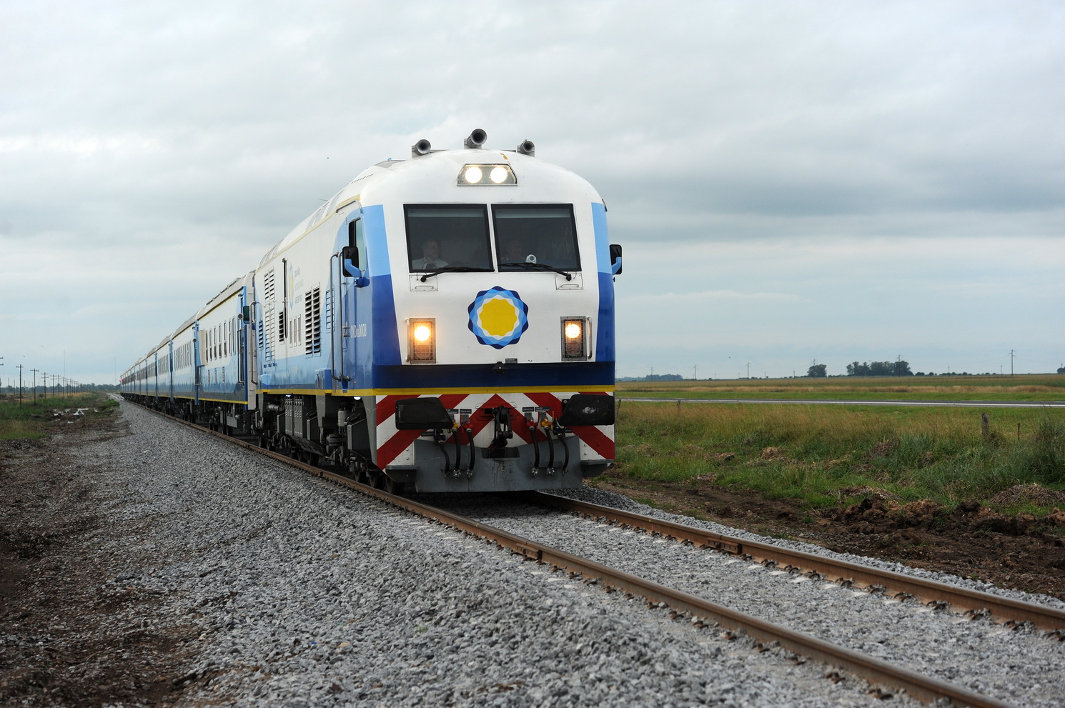 A train by CNR running on Ferrocarril Roca tracks. The unit was acquired by the Government of Argentina to run express services Buenos Aires–Mar Del Plata.